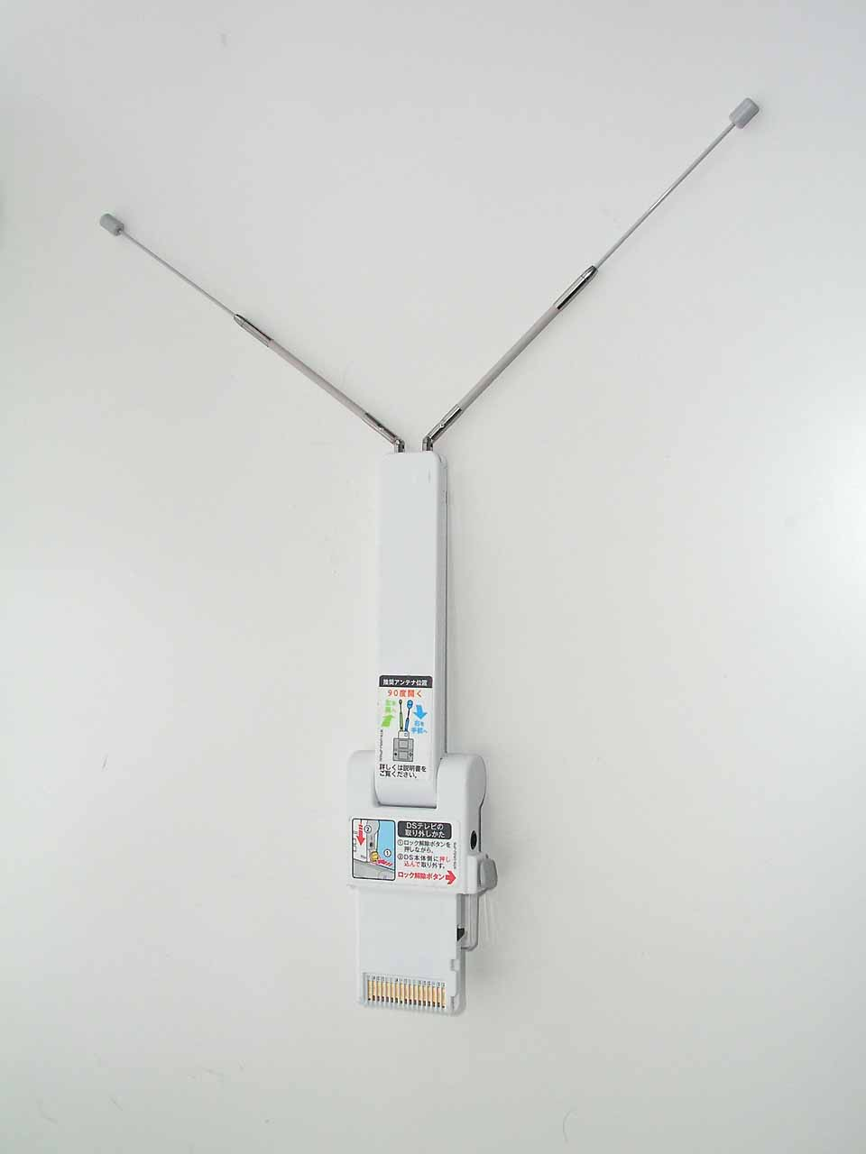 Nintendo DS Television Tuner (DSTV), body opened.